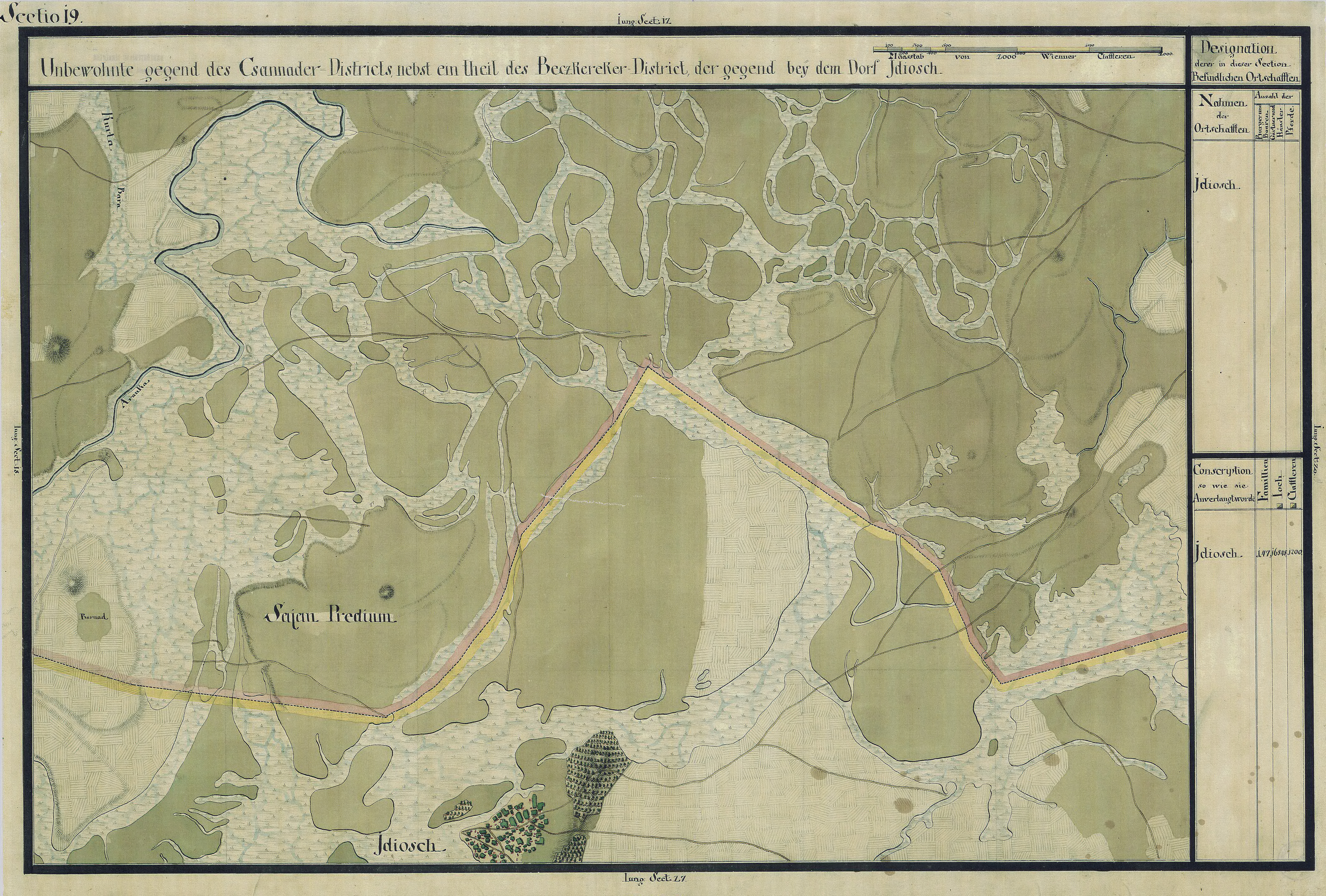 The Banat region in the cadastral maps: Josephinische Landesaufnahme, 1769-72. Josephinische Landaufnahme pg019